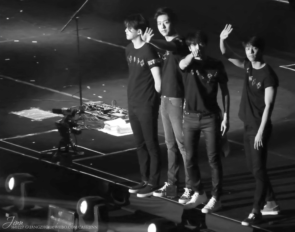 CNBLUE Live "Come Together" in Guangzhou on February 27, 2016.